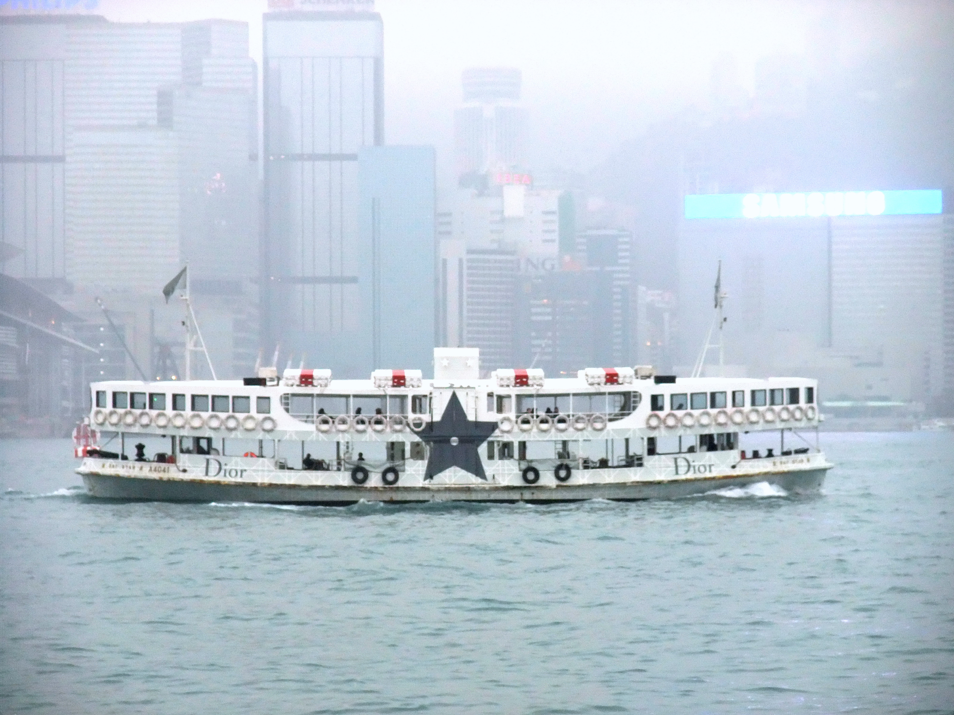 Dior Star Ferry ad compaign during the month of February 2011 in Hong Kong.